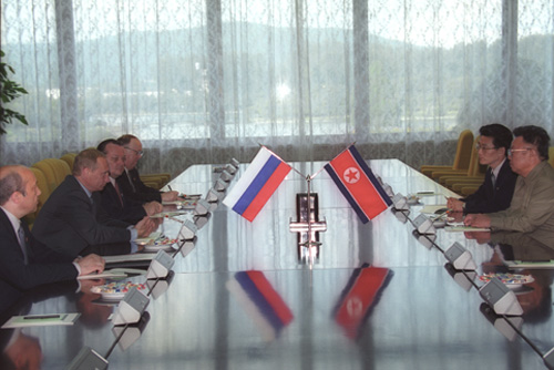 PYONGYANG. A Russian-North Korean summit meeting.